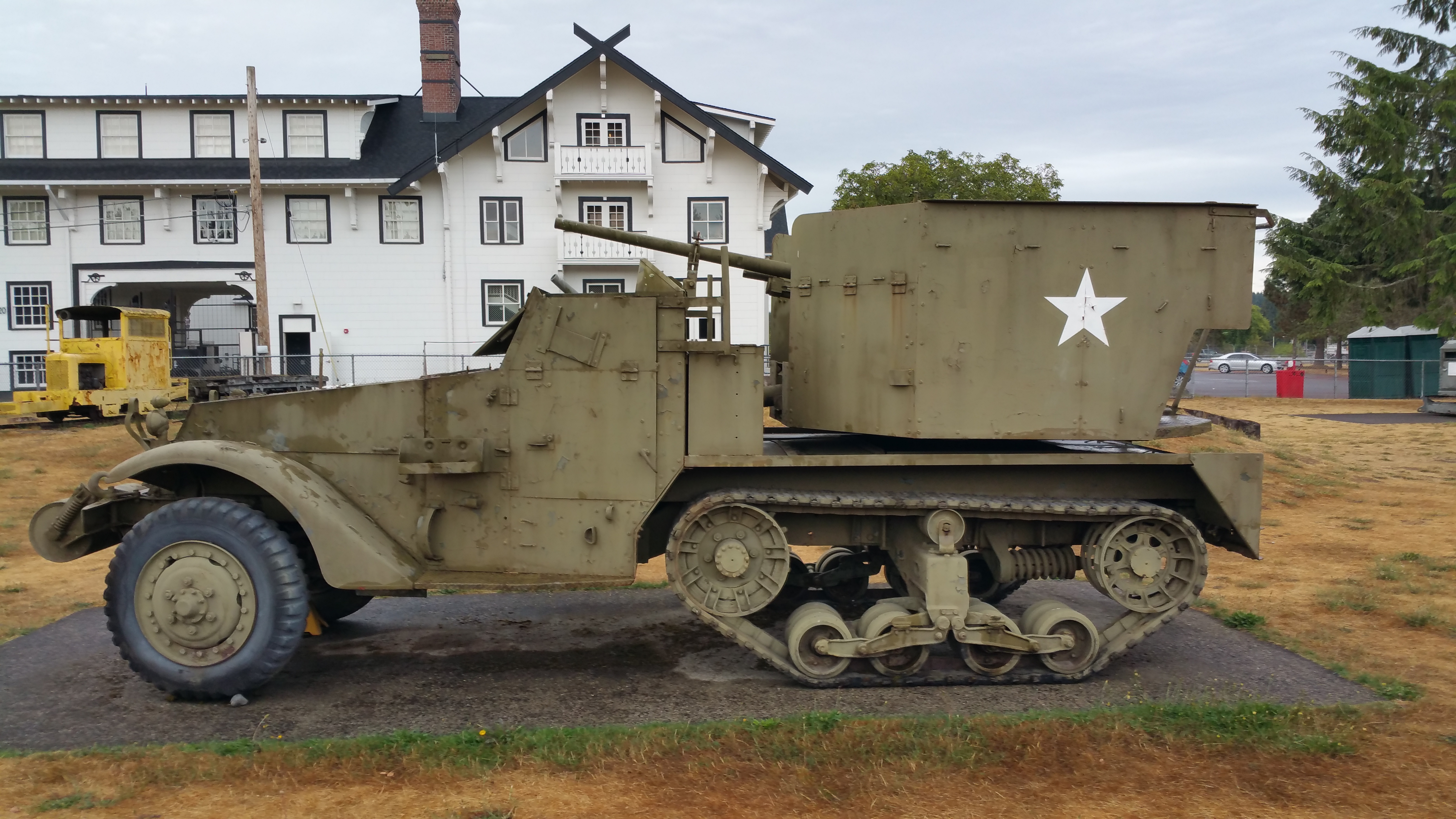 M-15A1 Combination Gun Motor Carriage JBLM